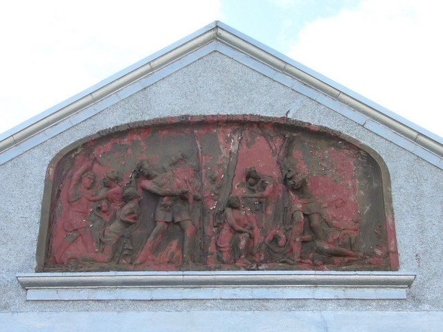 German Culture 1914, Pitt Street. A bizarre relic of the Great War, tucked away in a backstreet in Bonnington, Leith. The inscription above the scene reads, "The Valour Of German Culture, 1914". It depicts women in diaphanous dresses being assaulted by soldiers - presumably an allusion to The Rape Of The Sabine Women - only here the victims are Belgian civilians and the perpetrators brutal Prussian 'Huns'. It is believed that the building was a slaughterhouse when the figures were sculpted. Even to the untrained eye the work, which has apparently been damaged, is crude and amateurishly executed. Nevertheless, it testifies to the strength of anti-German feeling on the outbreak of the war. Countering the German boast of their superior 'Kultur' was a major theme in official propaganda of the time and the 'Belgian atrocities' were seen as its refutation. Ironically, a bomb fell on this very street during Edinburgh's only Zeppelin raid in April 1916. 1315129